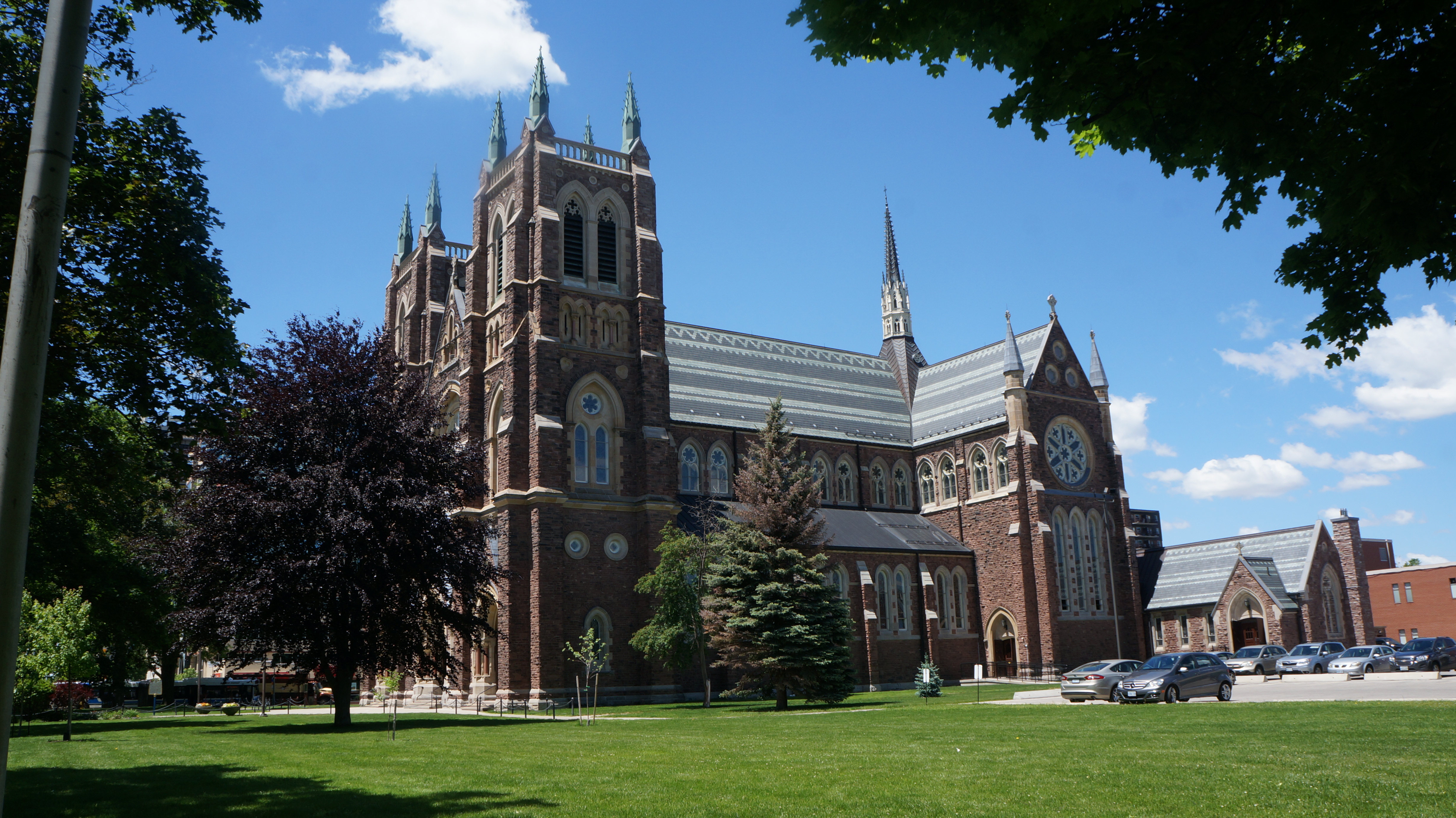 Exterior of Saint Peter's Cathedral Basilica, London Ontario